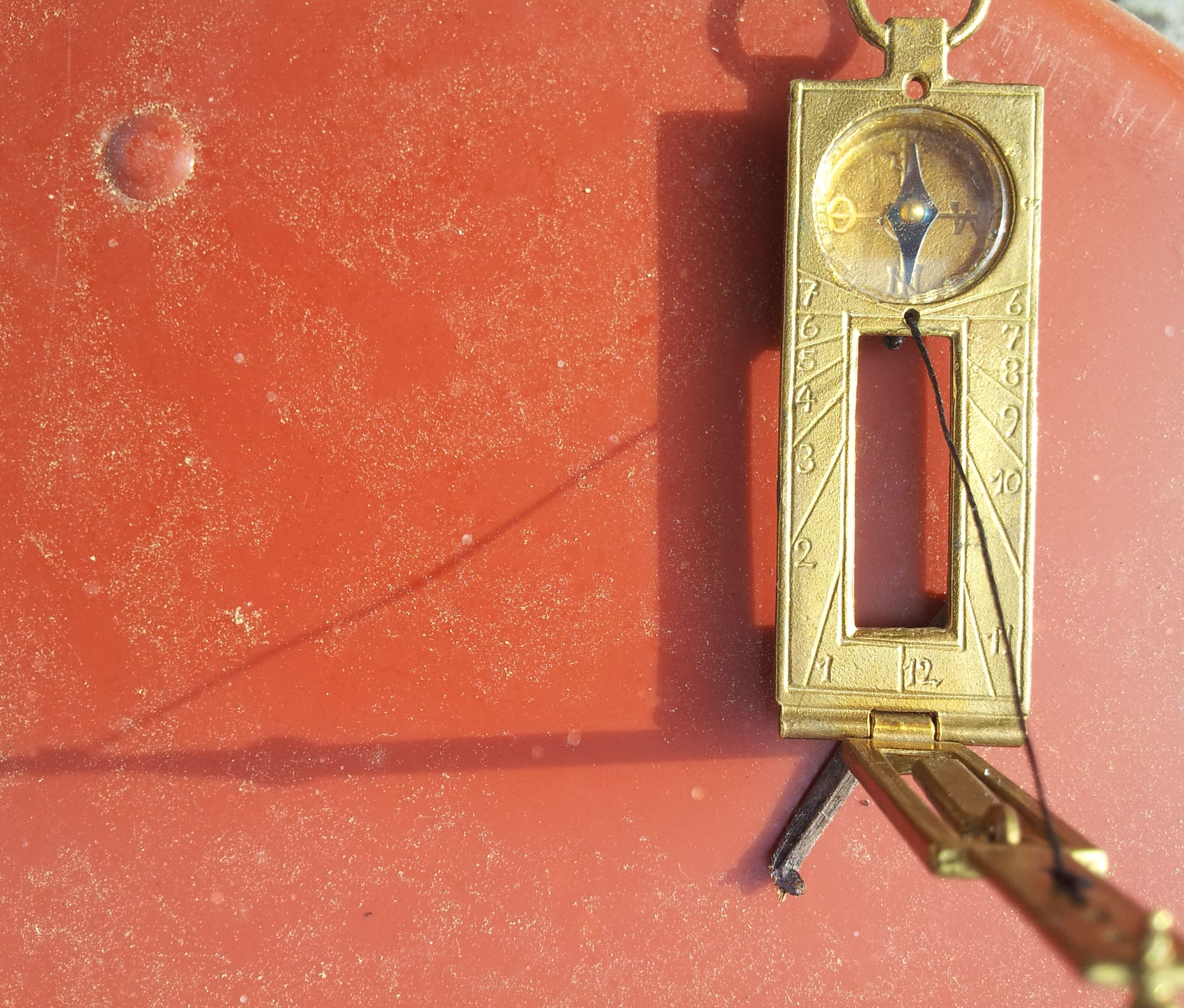 Klappsonnenuhr, geöffnet und in Betrieb, 15Uhr30